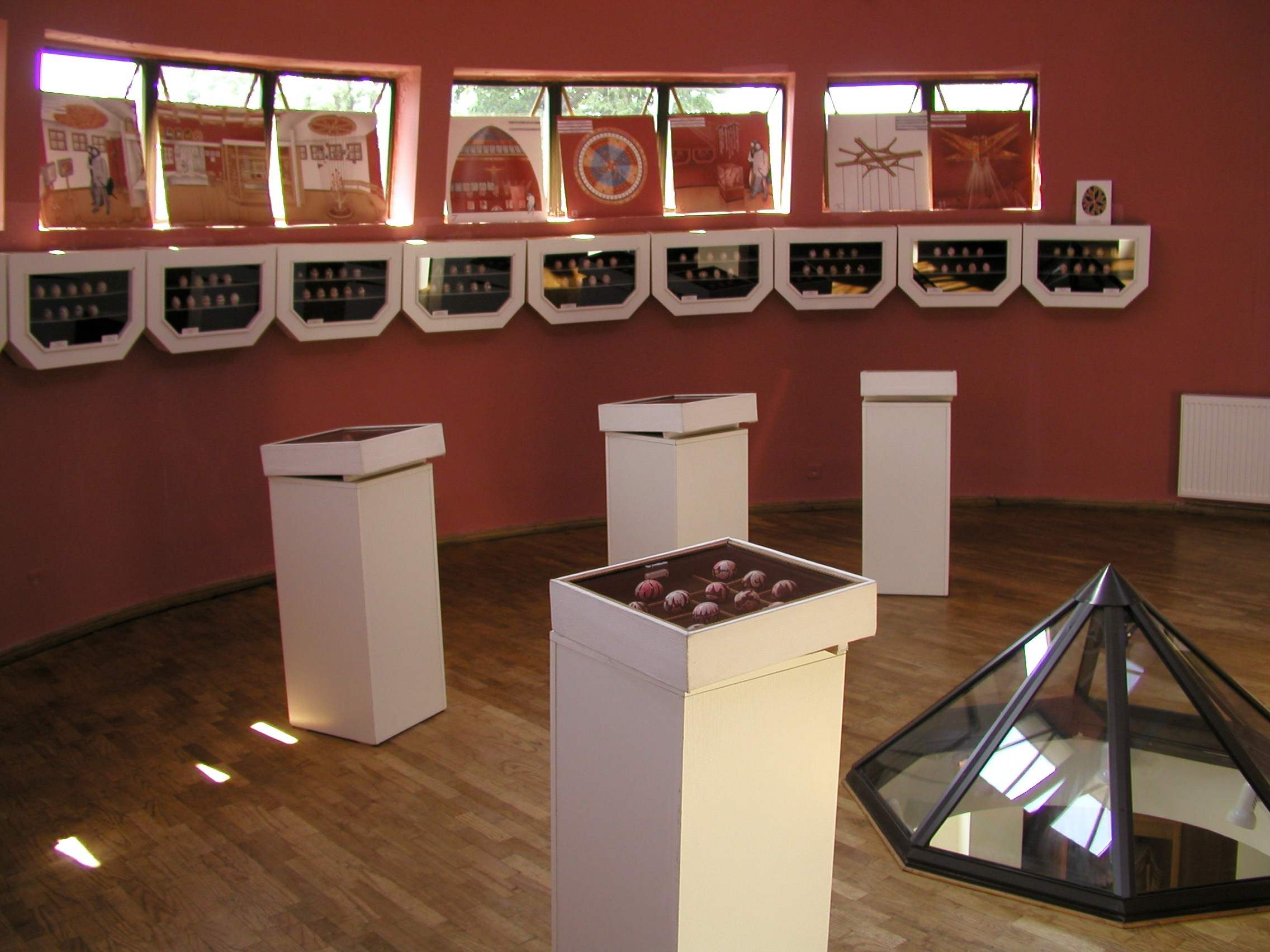 Interior view of Pysanka Museum in Kolomyia (Ivano-Frankivsk Oblast, Ukraine)